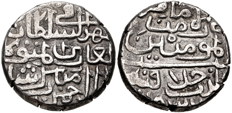 INDIA, Islamic Sultanates. Delhi. Mubarak Shah. AH 824-837 / AD 1421-1434. AR Tanka (21mm, 11.06 g, 4h). Dated AH 834? (AD 1430/1?). al-sultan legend / fi zaman legend. CIS D654; Rajgor Type 1407. VF, lightly toned, several minor edge splits.